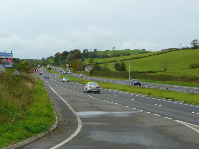 A40 Llysonen Road The main road west from Carmarthen to the Pembrokeshire ports. Viewed from the exit of the United Counties Showground.